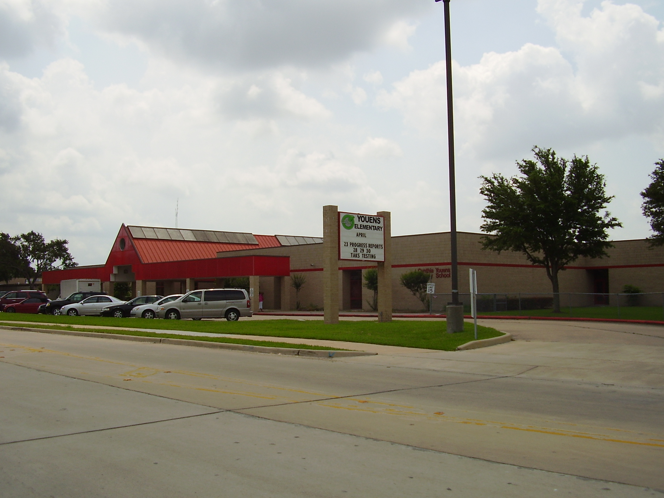 Cynthia Youens Elementary School